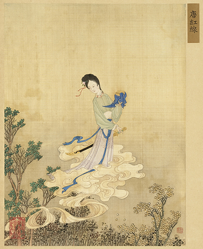 This painting depicts Hongxian (紅線).